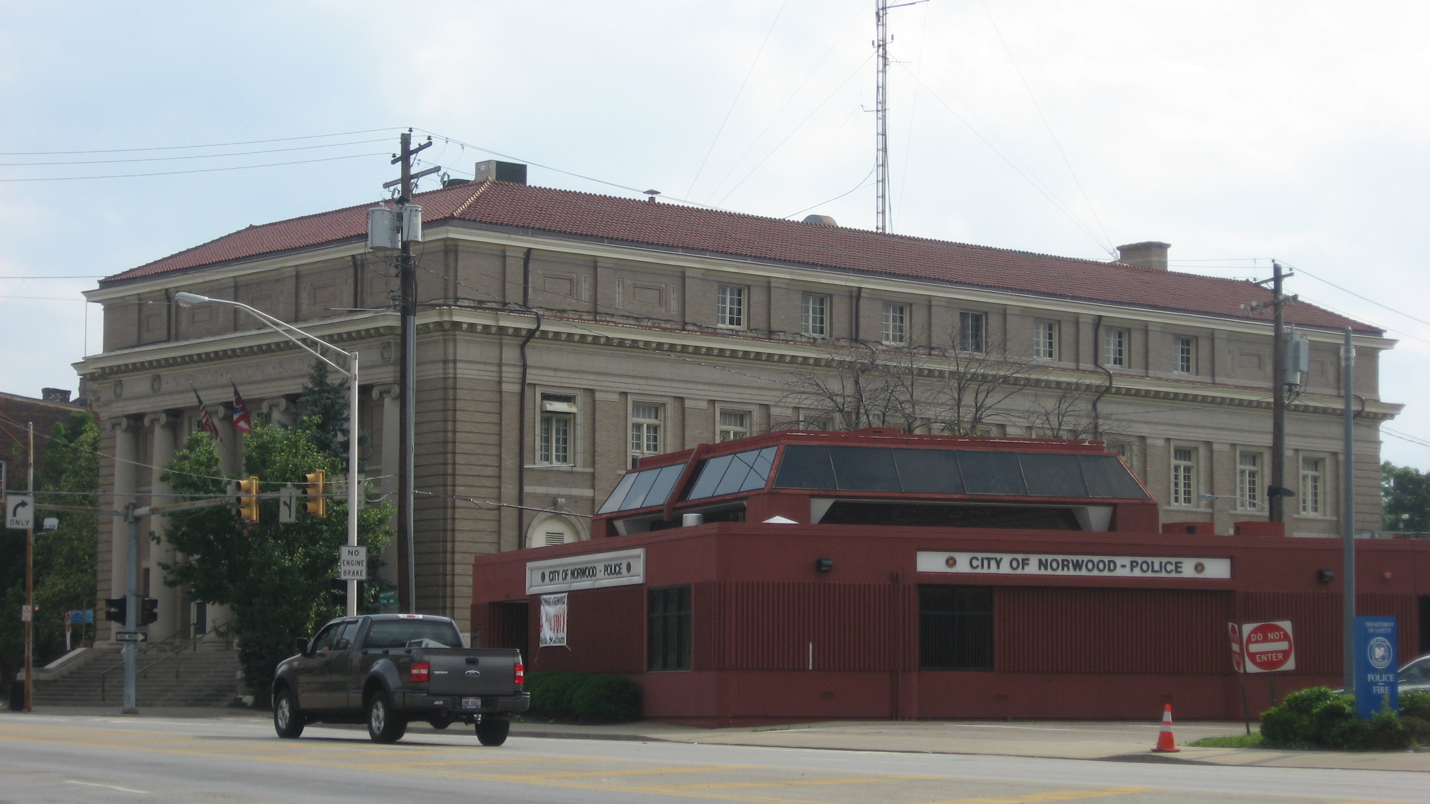 Side of City Hall in Norwood, Ohio, United States, located at 4645 Montgomery Road. Built in 1915, it is listed on the National Register of Historic Places.